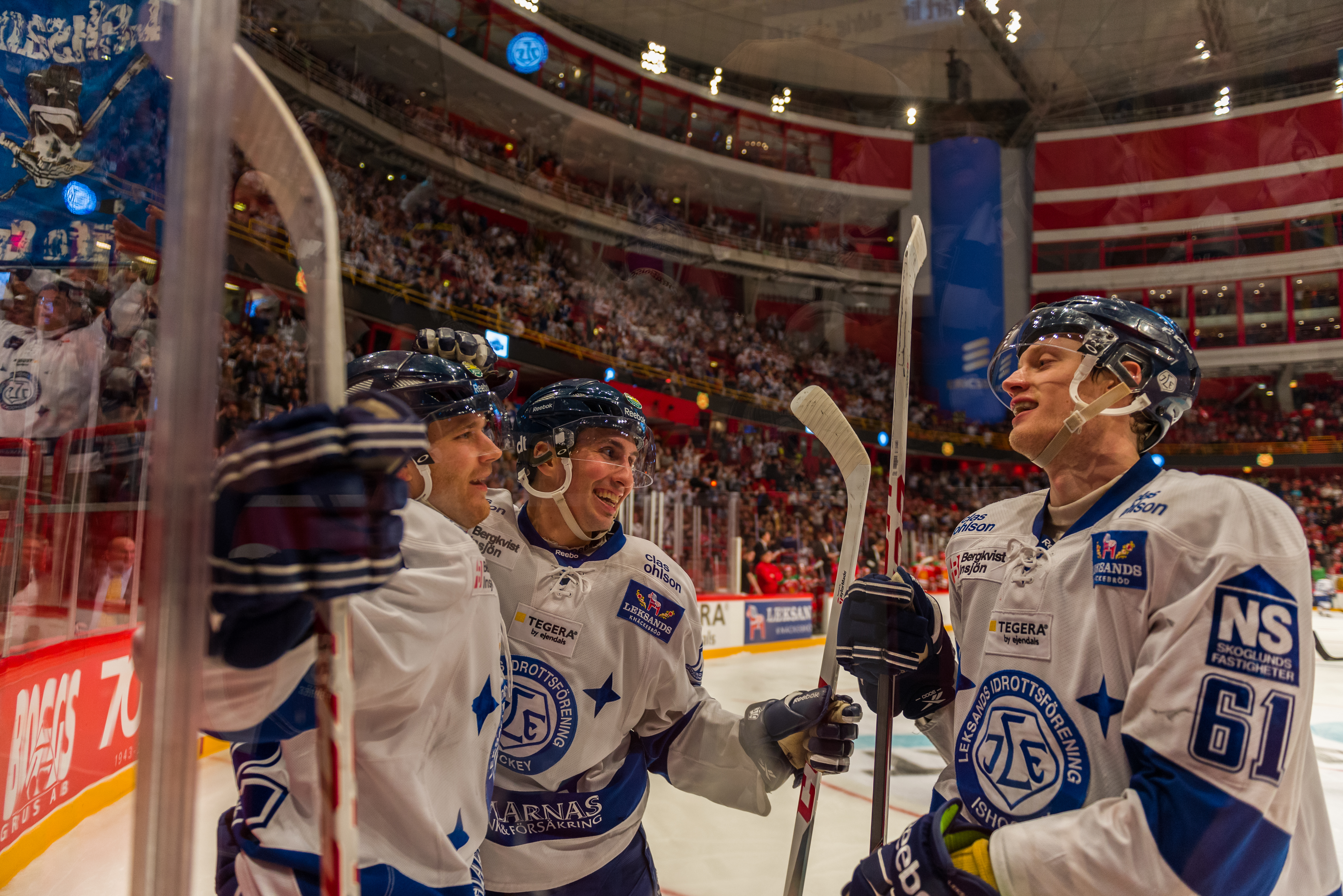 Leksand IF players celebrates goal against Mora IK in Hockeyallsvenskan (Swedish second league). Match between Leksand and Mora in Stockholm 2013-01-05. From left to right, Jens Bergenström, Mark Hurtubise and Johan Ryno.